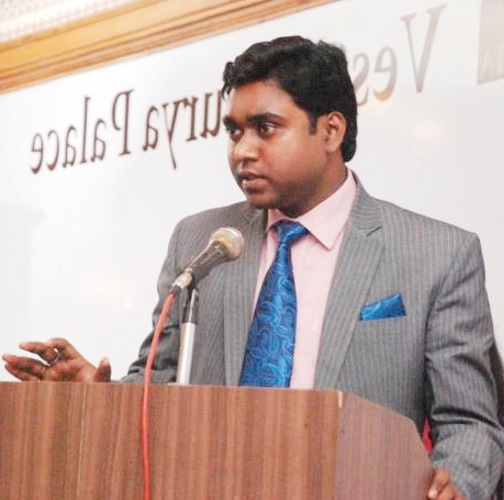 Nitya Prakash